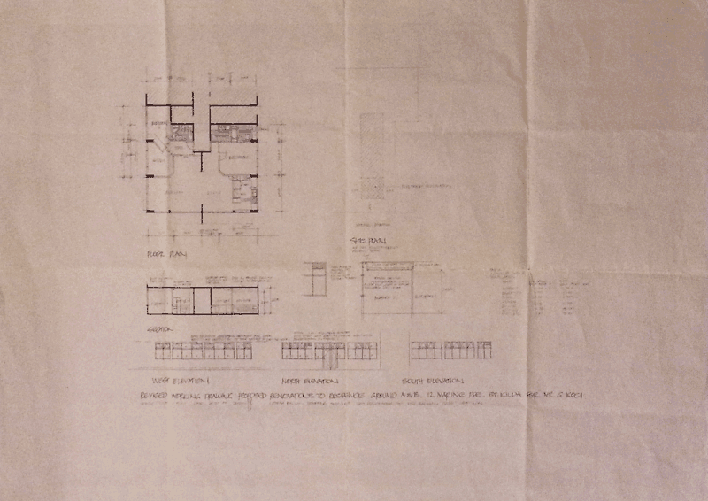 Apartment drawings of Edgewater Tower